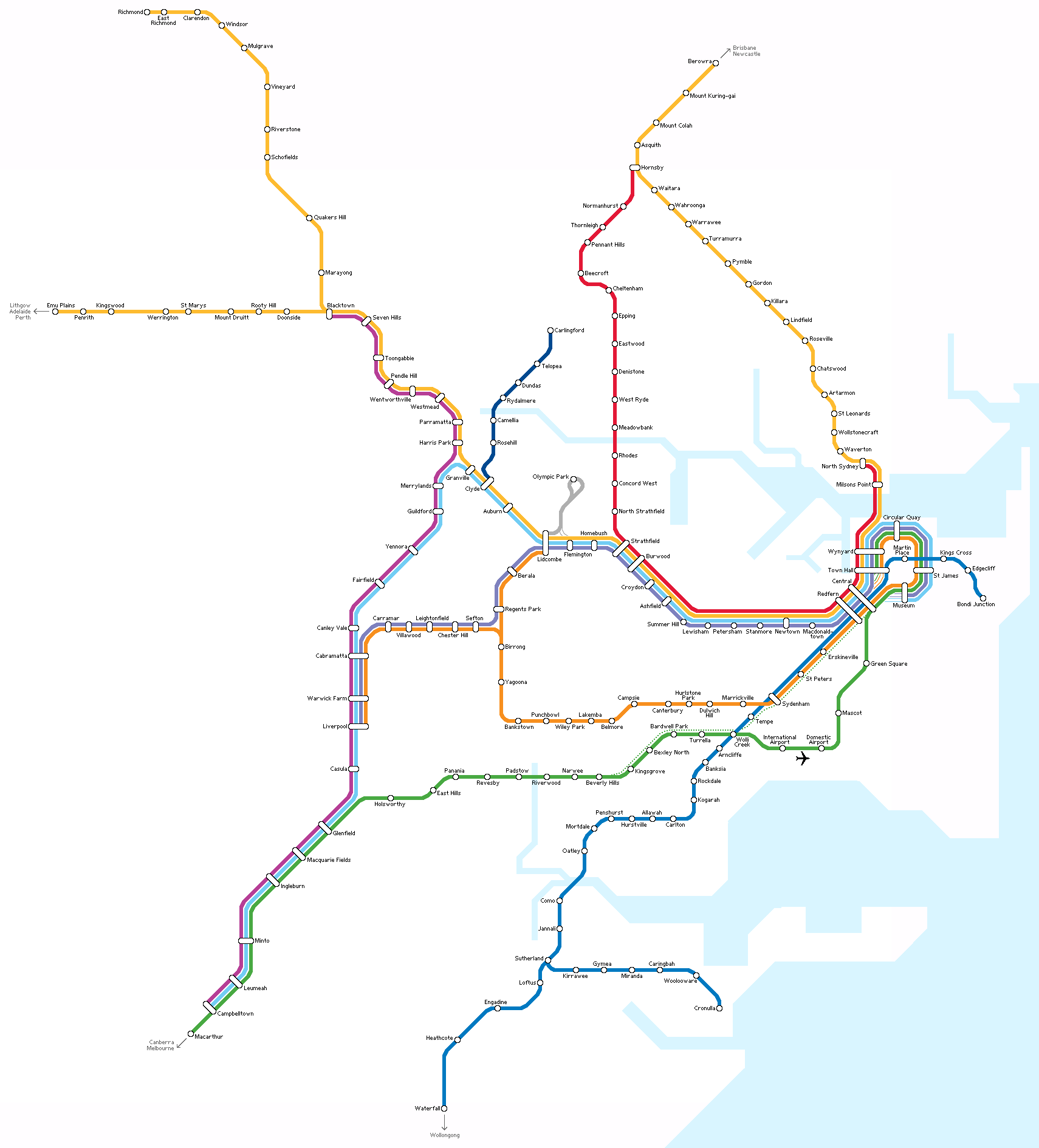 Map of CityRail network in Sydney, Australia as of 2006 Created by Voyager